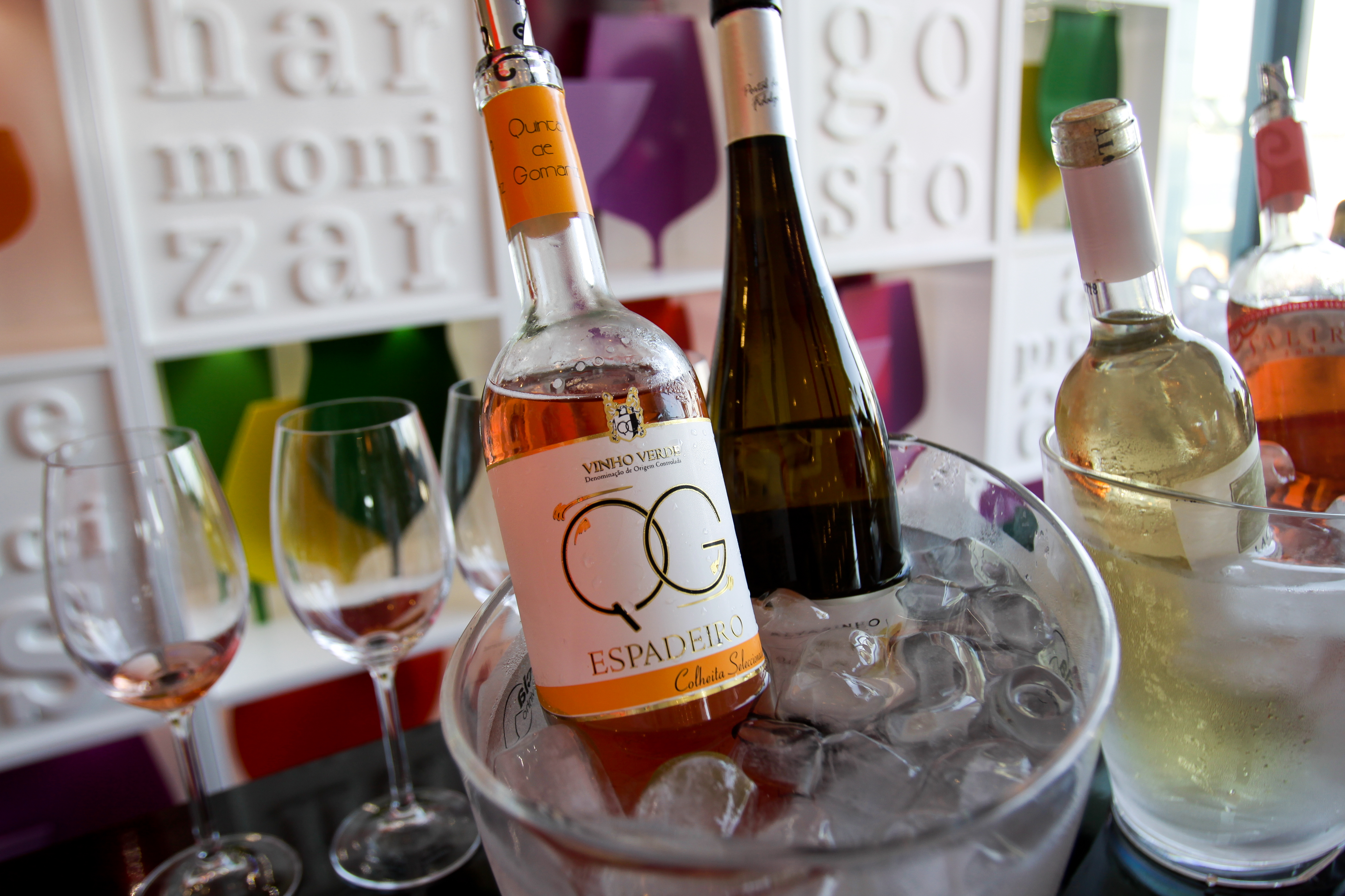 From author "Allgarve Gourmet Portimão 2011. Photo by Ricardo Bernardo / "